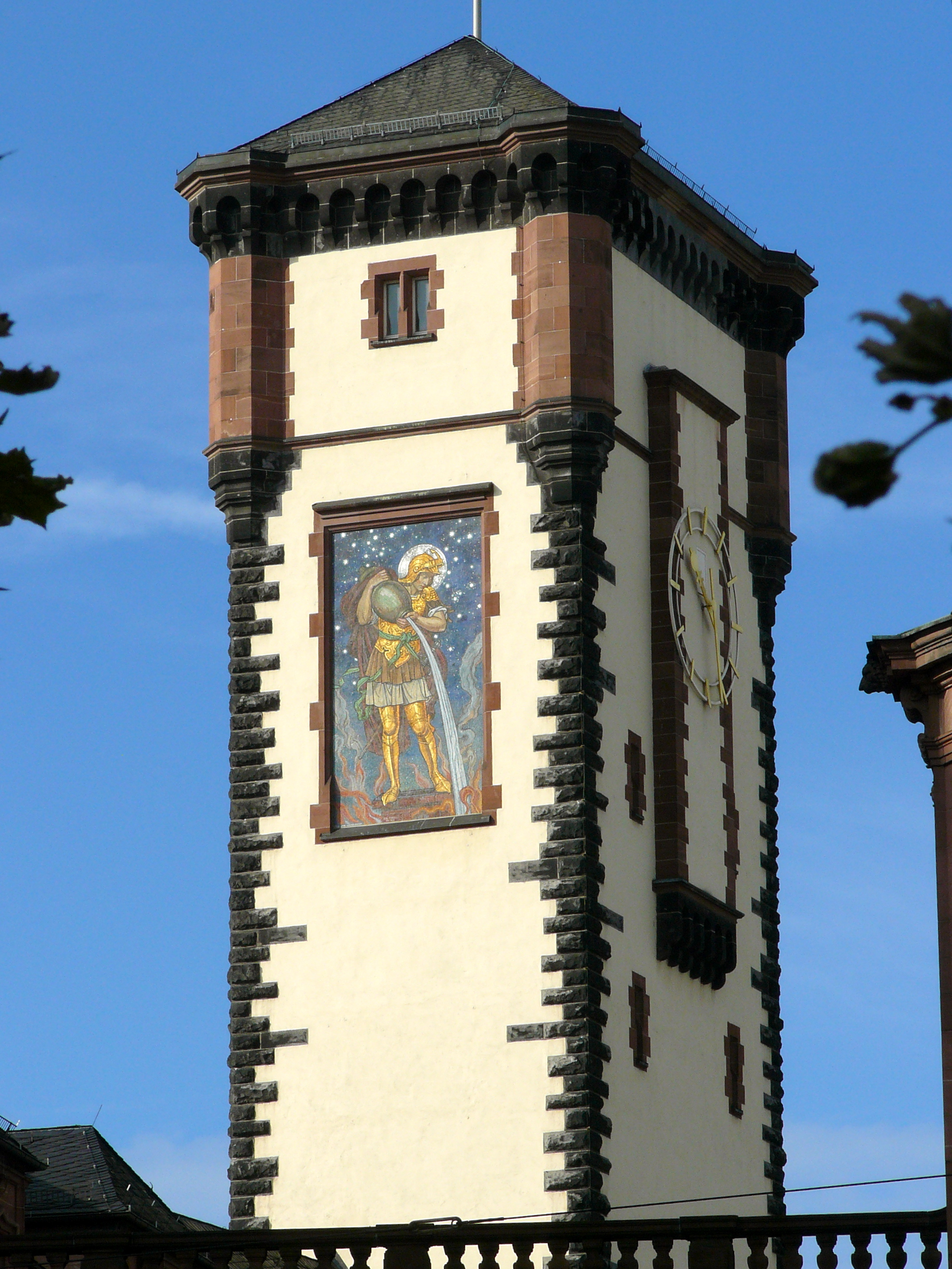 Tower Langer Franz in city hall area of Frankfurt, Hesse, Germany